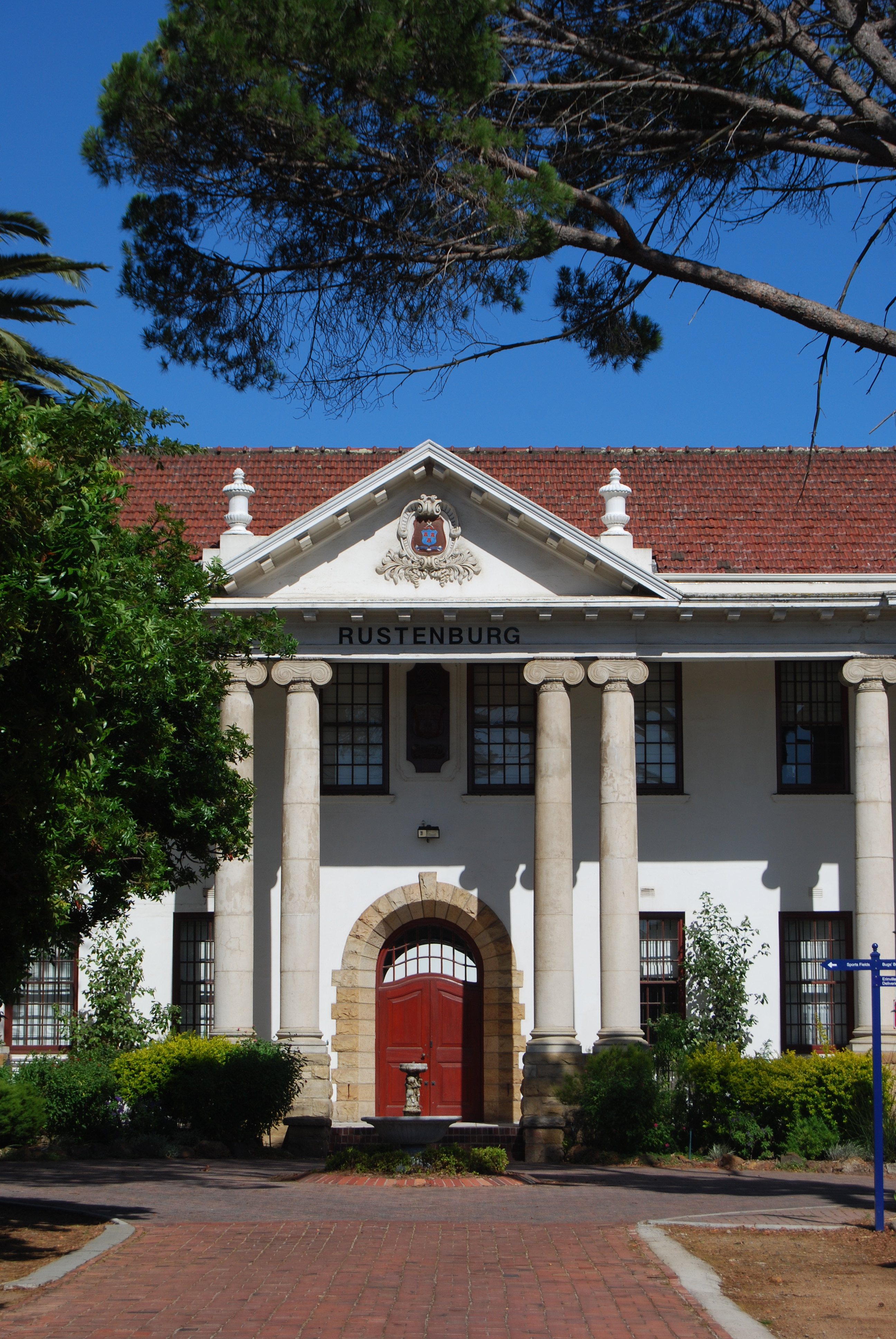 Entrance to Rustenburg High School for Girls, in Cape Town, South Africa